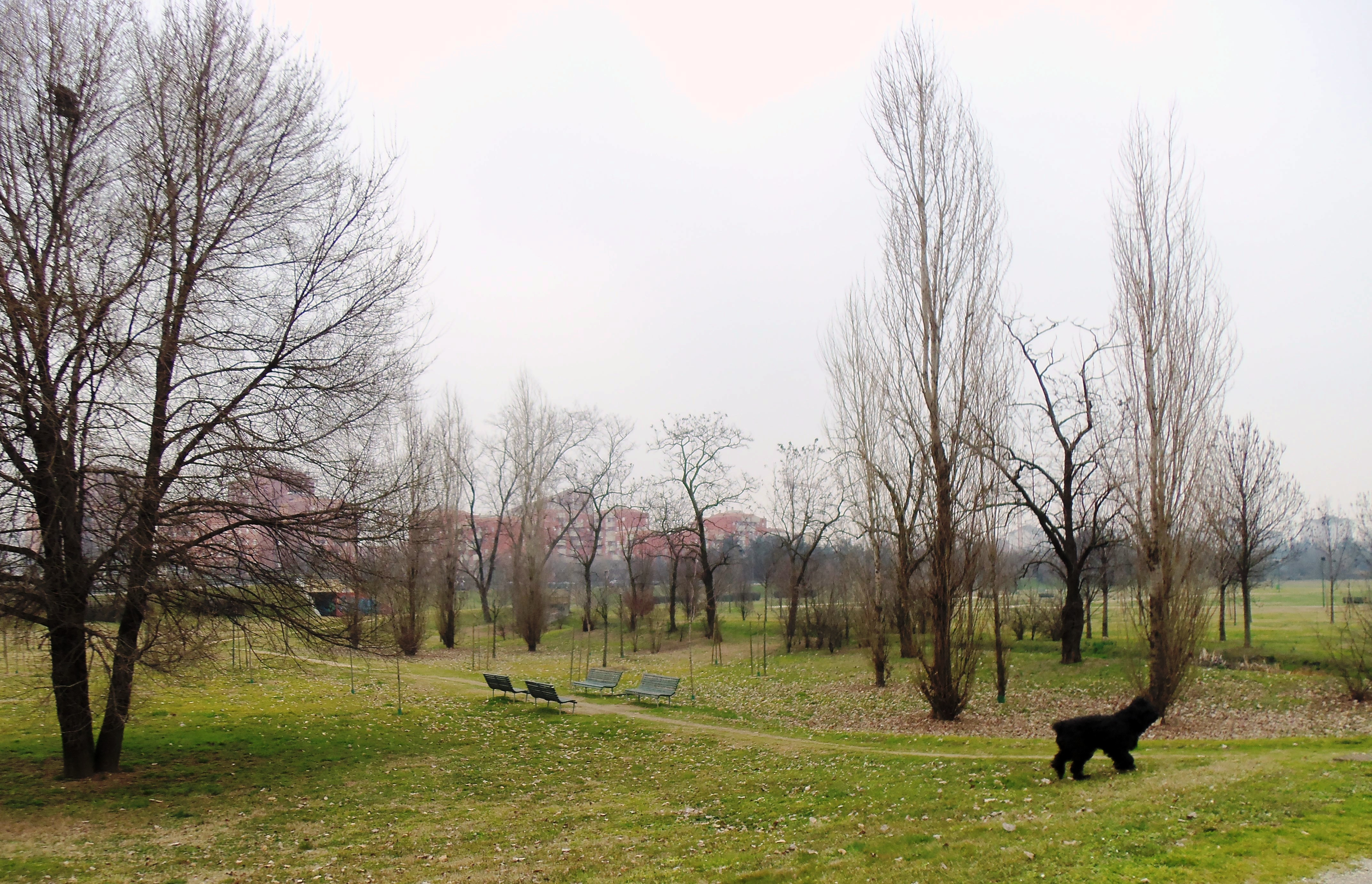 Milano, zona 6. View of Fontanili park